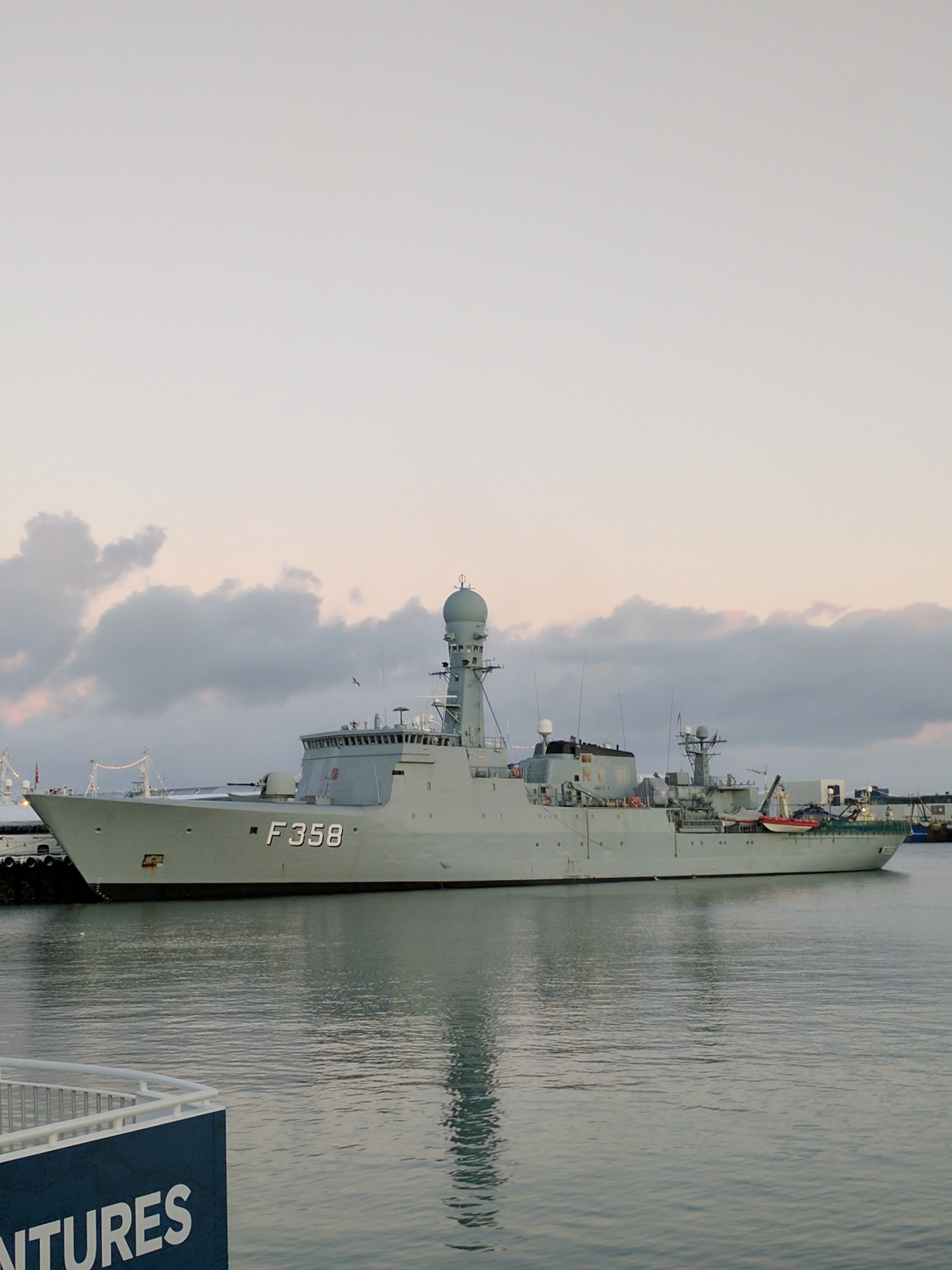 Danish Naval Vessel F358 Triton in the harbour at Reykjavik - Iceland (December 2016)